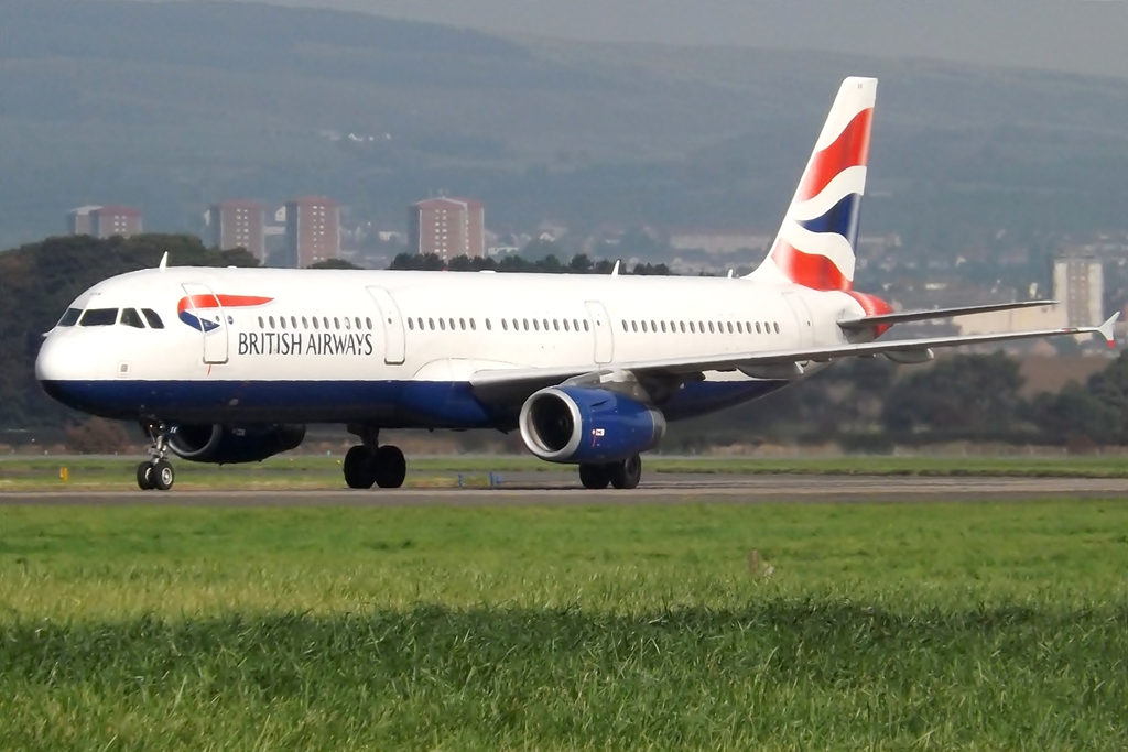 G-EUXK A321 British Airways